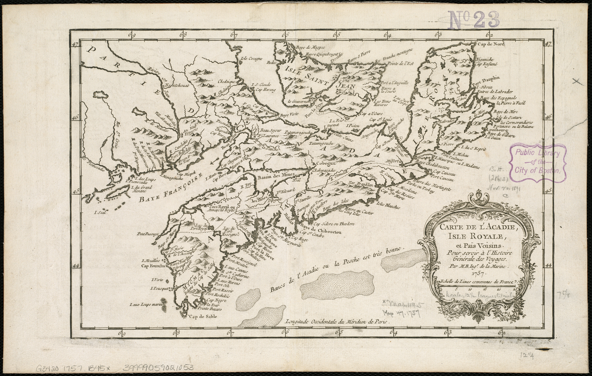 Zoom into this map at . Author: Bellin, Jacques Nicolas Date: 1757 Location: Nova Scotia Dimension: 20x32cm Scale: ca. 1:2,250,000 Call Number: G3420 1757 .B45x